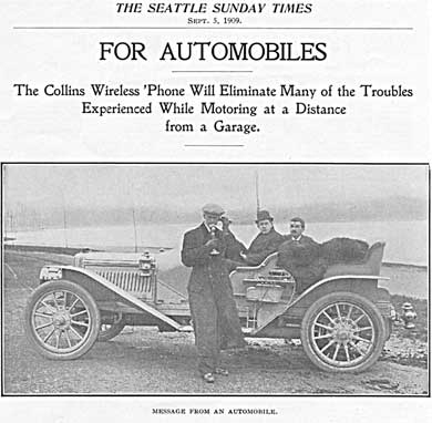 Collins Wireless Phone advertisment